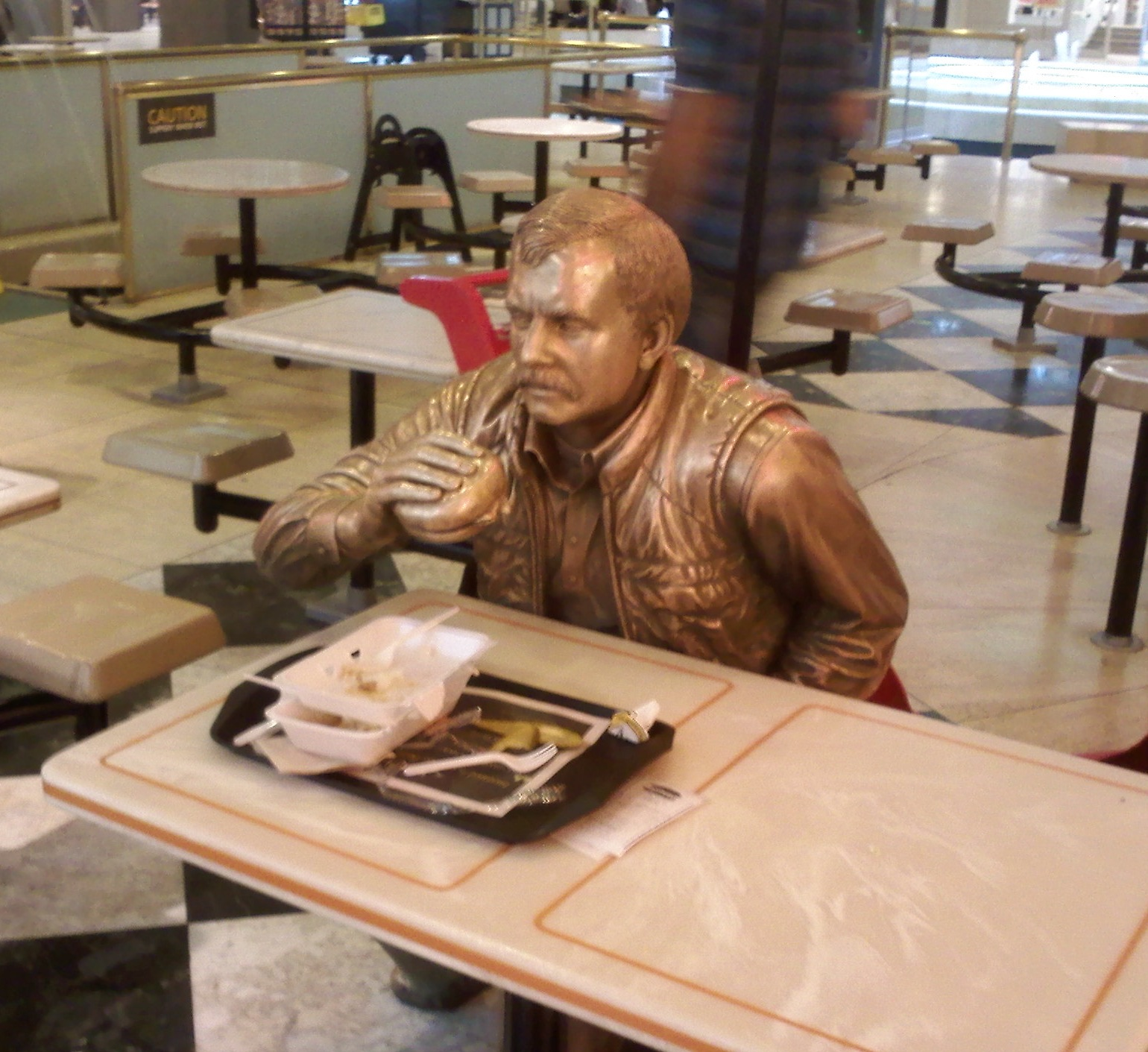 A brass statue of a man eating a hamburger in a food court at West Edmonton Mall.